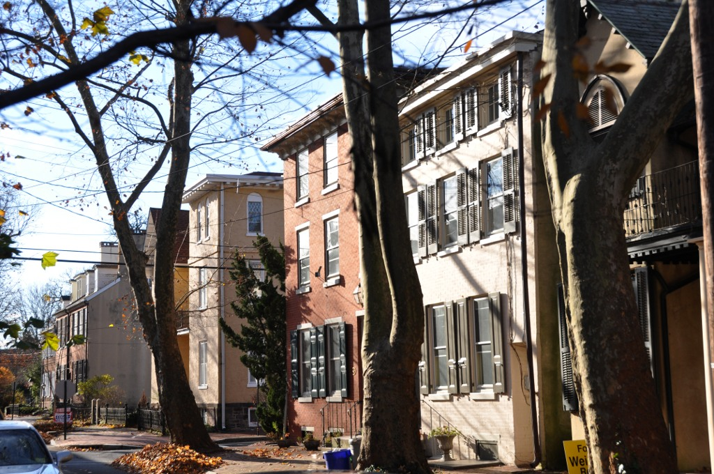 Wood Street in Burlington, New Jersey, part of the Burlington Historic District.